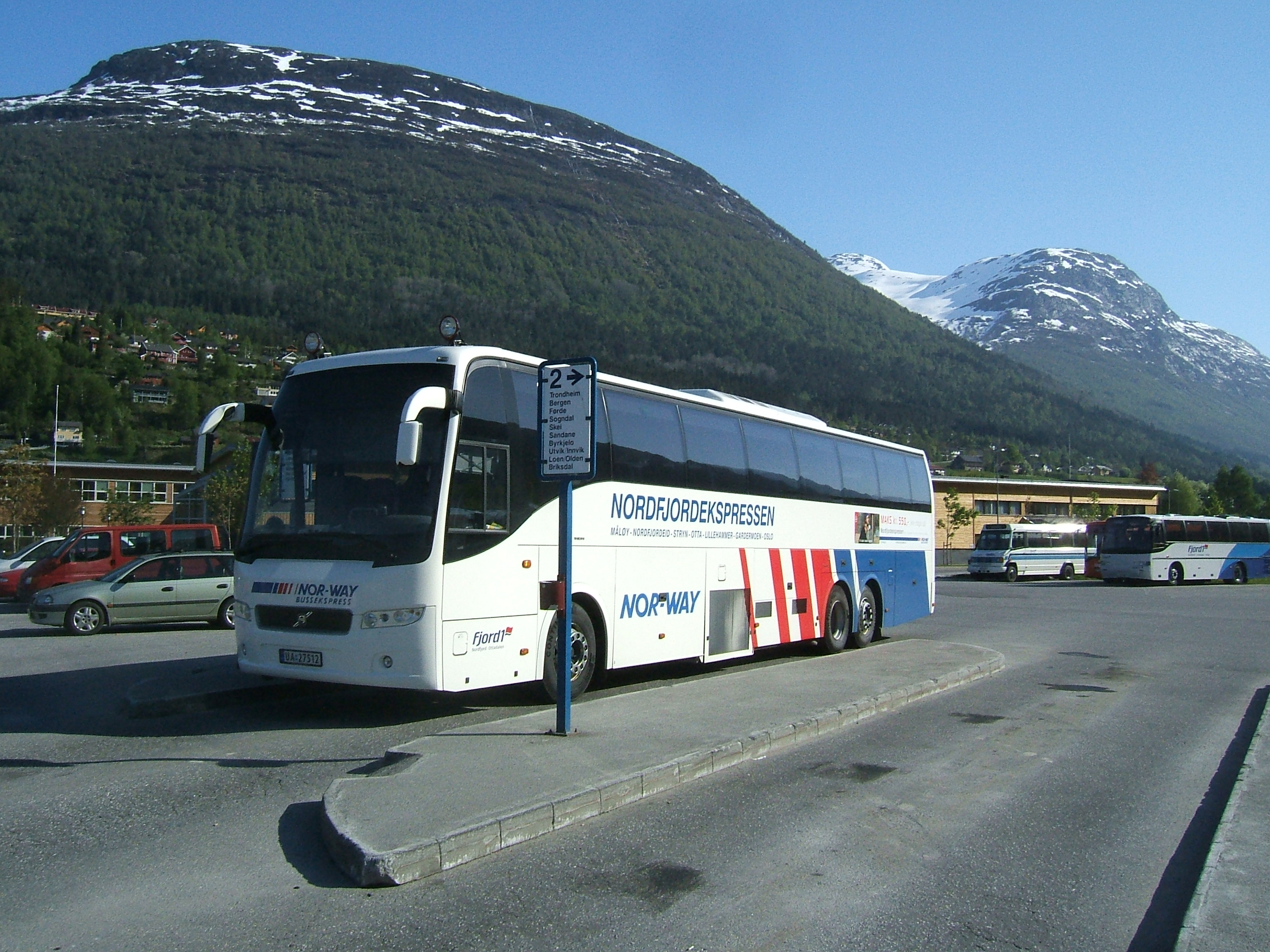 Bus to Oslo